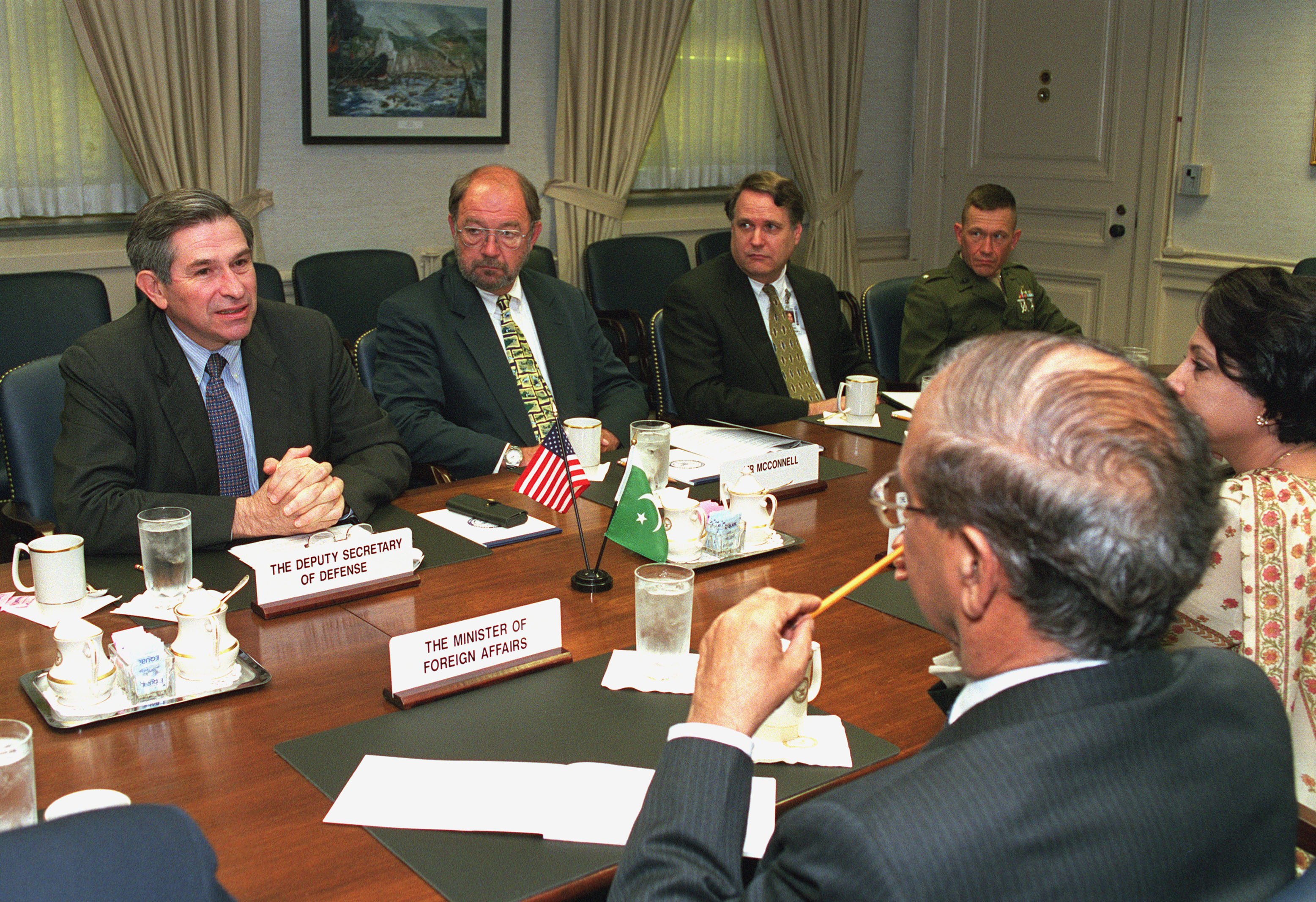 Deputy Secretary of Defense Paul Wolfowitz (left), joined by some of his senior policy advisors, hosts a Pentagon meeting on June 19, 2001, with Pakistan's Minister of Foreign Affairs Abdul Sattar (left foreground). The discussions focused on regional security issues of interest to both nations.